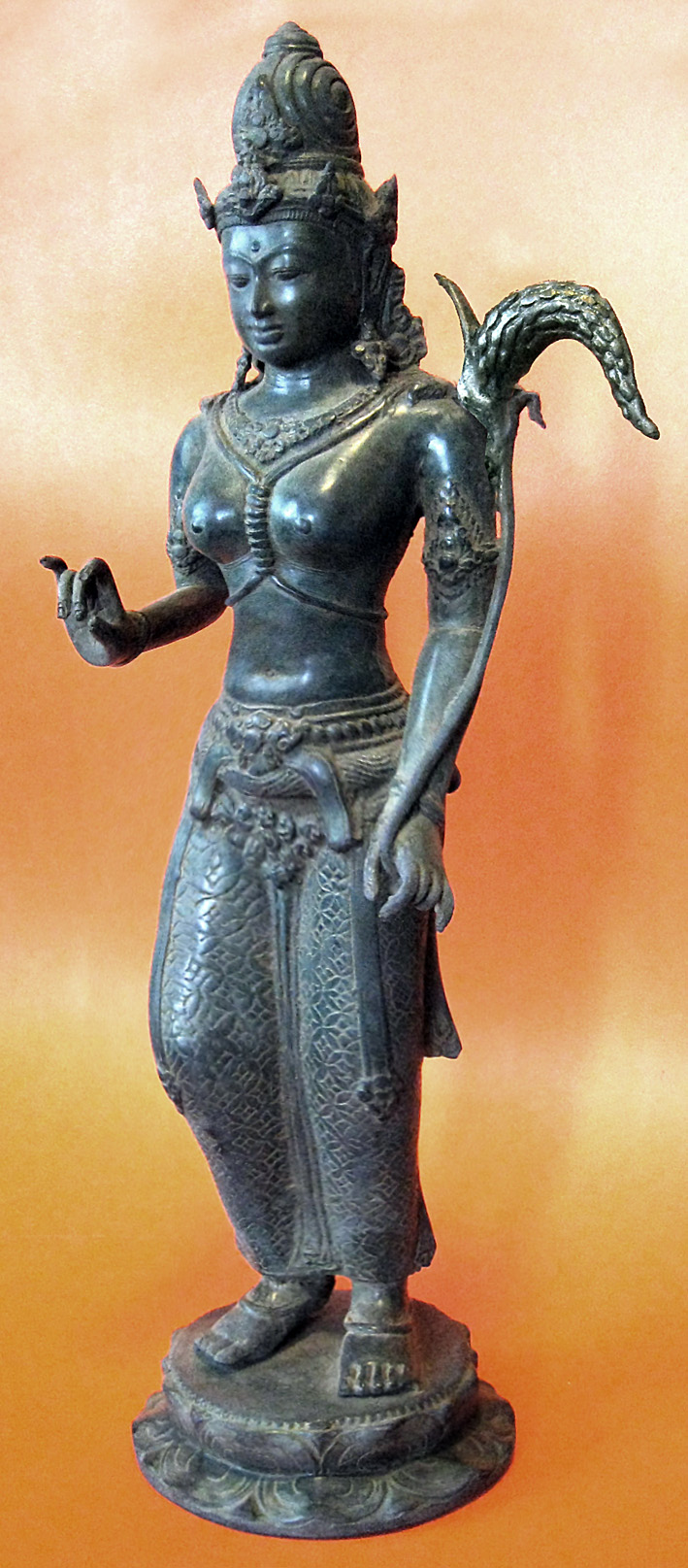 Dewi Sri 36 cm tall bronze statue, Central Java art. Dewi Sri is the goddess of rice, fertility and agricultre of ancient Java and Bali. Her left hand is holding a rice plant.